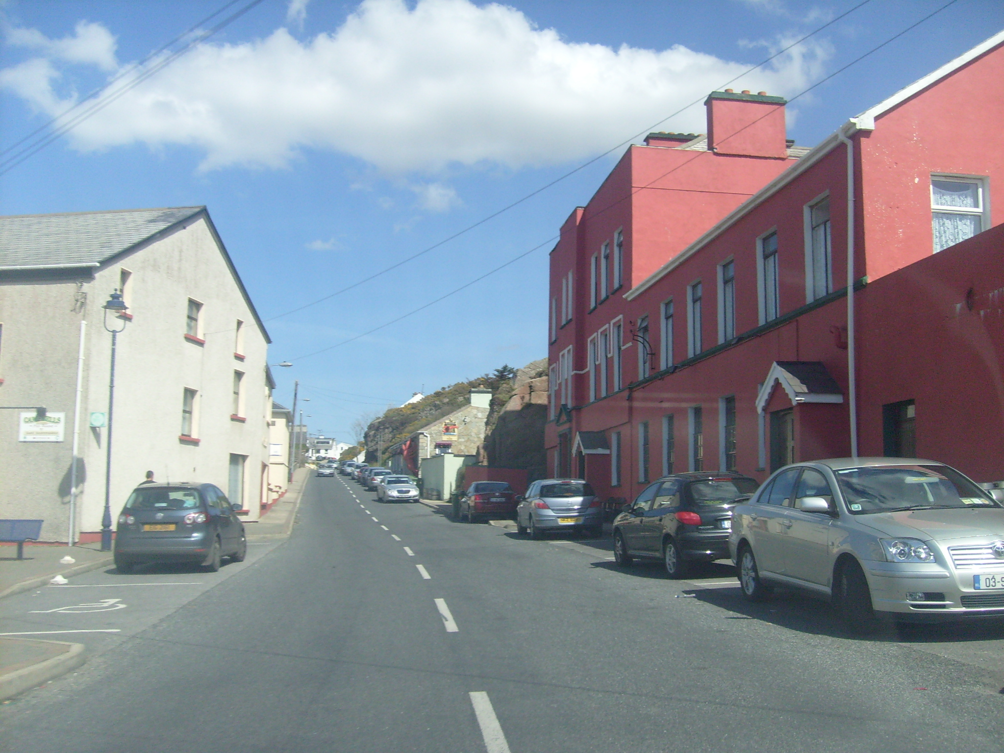 Ailt an Chorráin (Burtonport), Co Donegal, ÉIRE